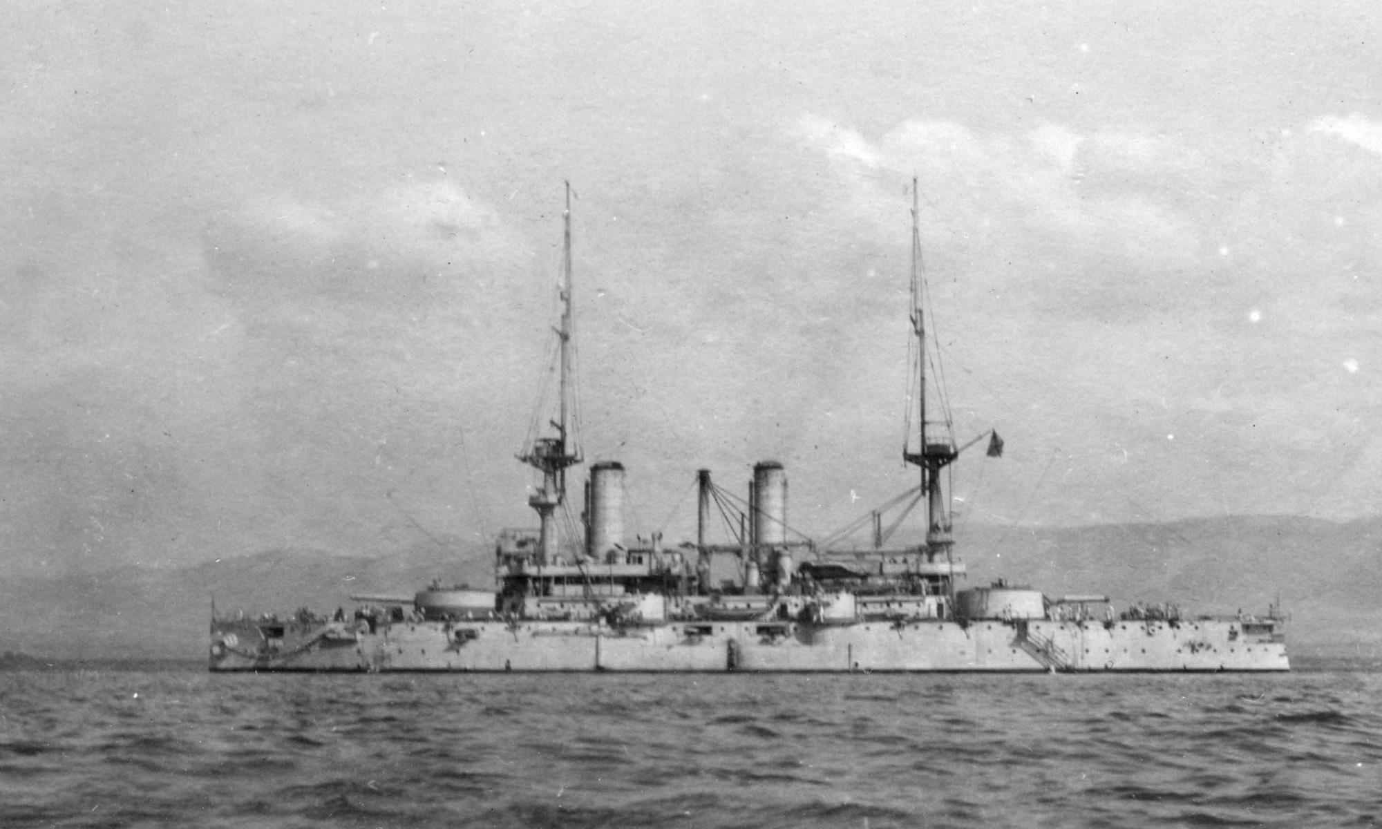 The Imperial Russian battleship Chesma in the Mediterranean Sea, 1916.